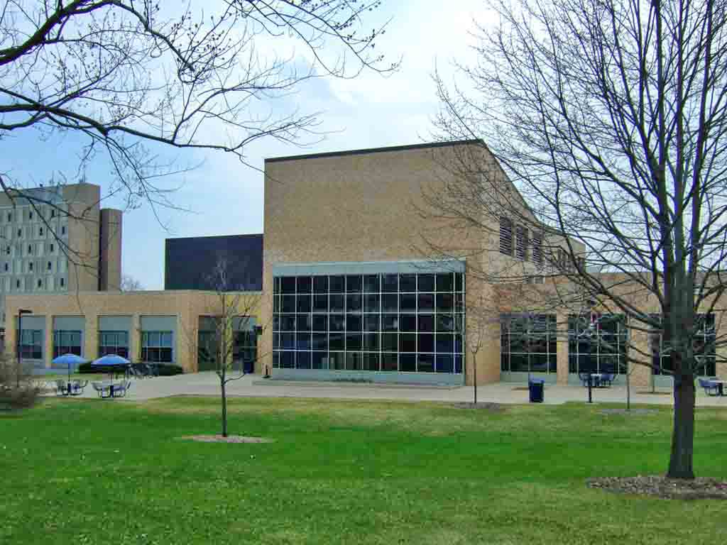 David J. and Lou Ann Markee Pioneer Student Center